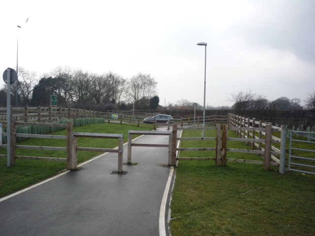 Cycle crossing for A1237. A new crossing of the A1237 has been build during the construction of the new roundabout here.